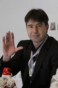 Alexei Urmanov at the 2010-2011 Junior Grand Prix of Figure Skating Final.